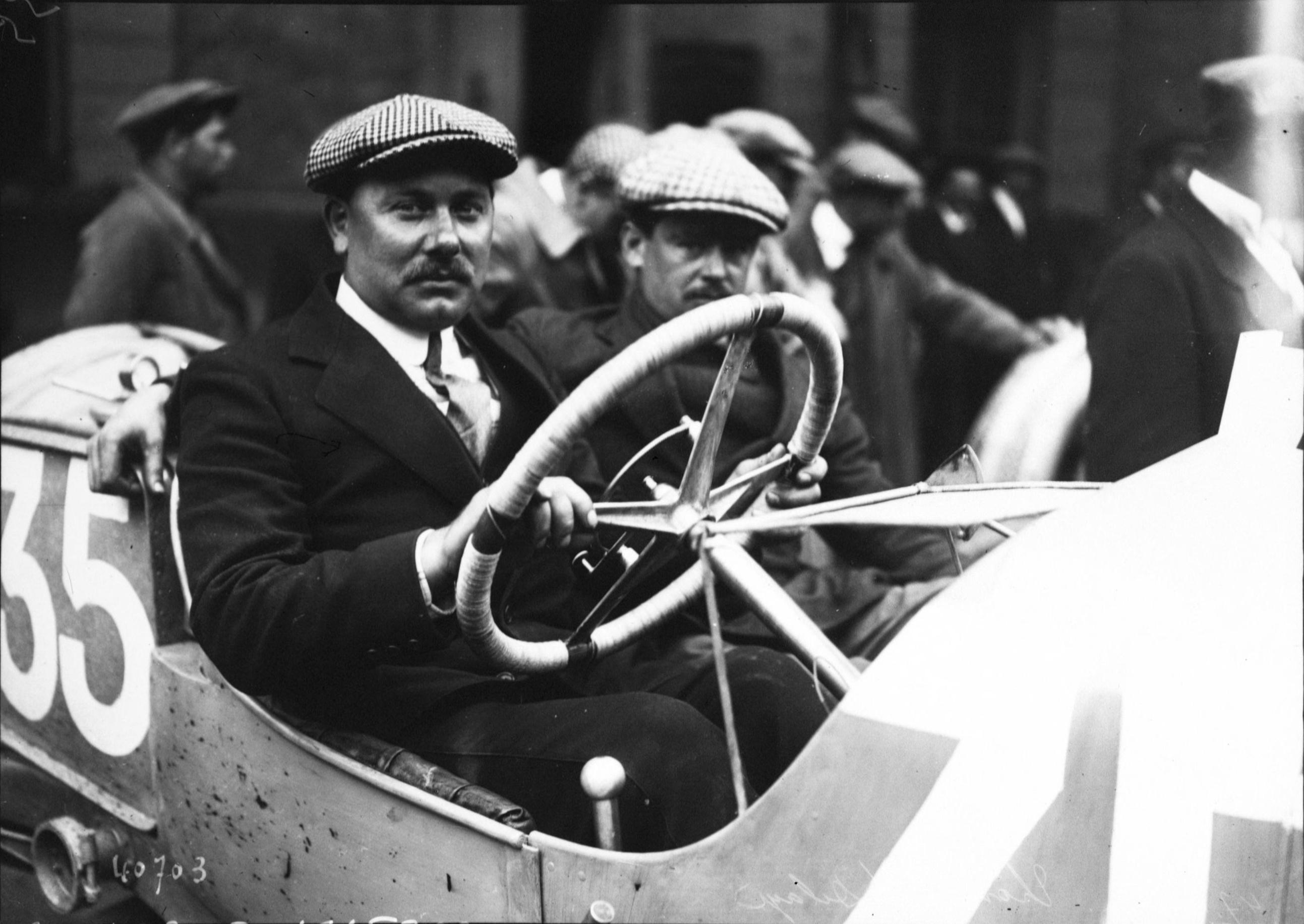 René Thomas at the 1914 French Grand Prix